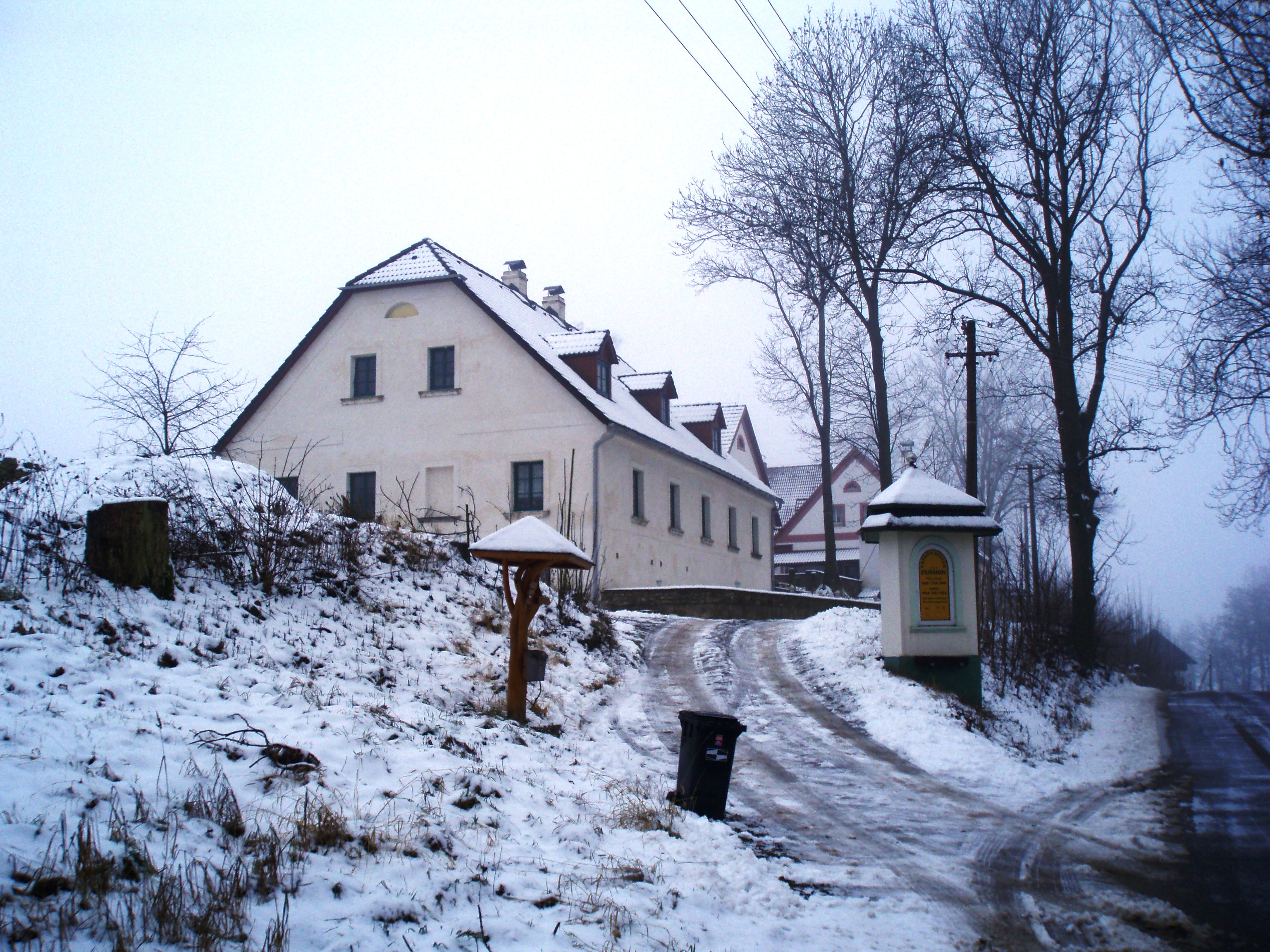 Pension "Čapkův statek" in Chlístov (Hořičky, Czech Republic)